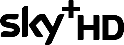 Logo for Sky+ HD service, as of 2008.